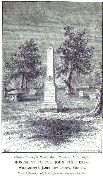 Monument to Col. John Page, Esqr., Williamsburg, James City County, Virginia. Erected January 1878, to replace the original headstone. (From a drawing by Draddy Bros., Broadway, N. Y., 1878.)